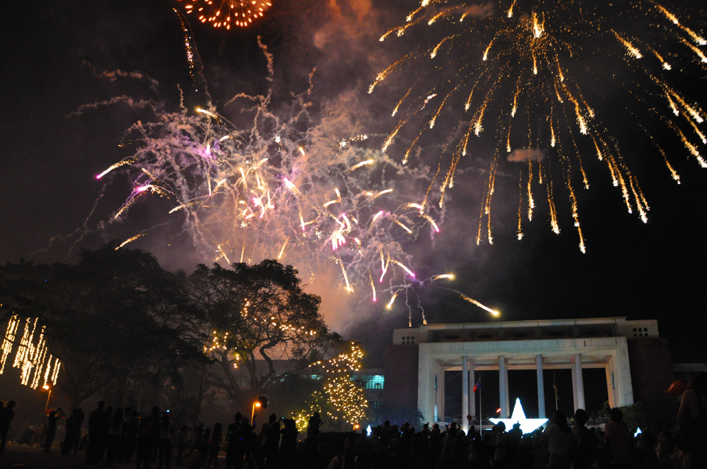 The view from the University Avenue during the 2011 Lantern Parade.